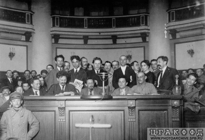 2nd Congress of Soviets of the Nothern region presidium. In the front row: Moisei Uritsky, Lev Trotsky, Yakov Sverdlov, Grigory Zinoviev, Mikhail Lashevich. In the 2nd row: M.Kharitonov, M.Lisovsky, A.Korsak, S.Zarin, S.Voskov, S.Gusev, S.Ravich, I.Bakayev, N.Kuzmin